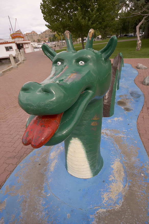 Ogopogo statue in Kelowna, BC